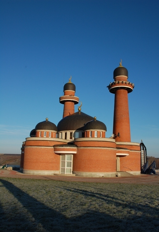 Muslim cultural center "Medina" in Central Russia